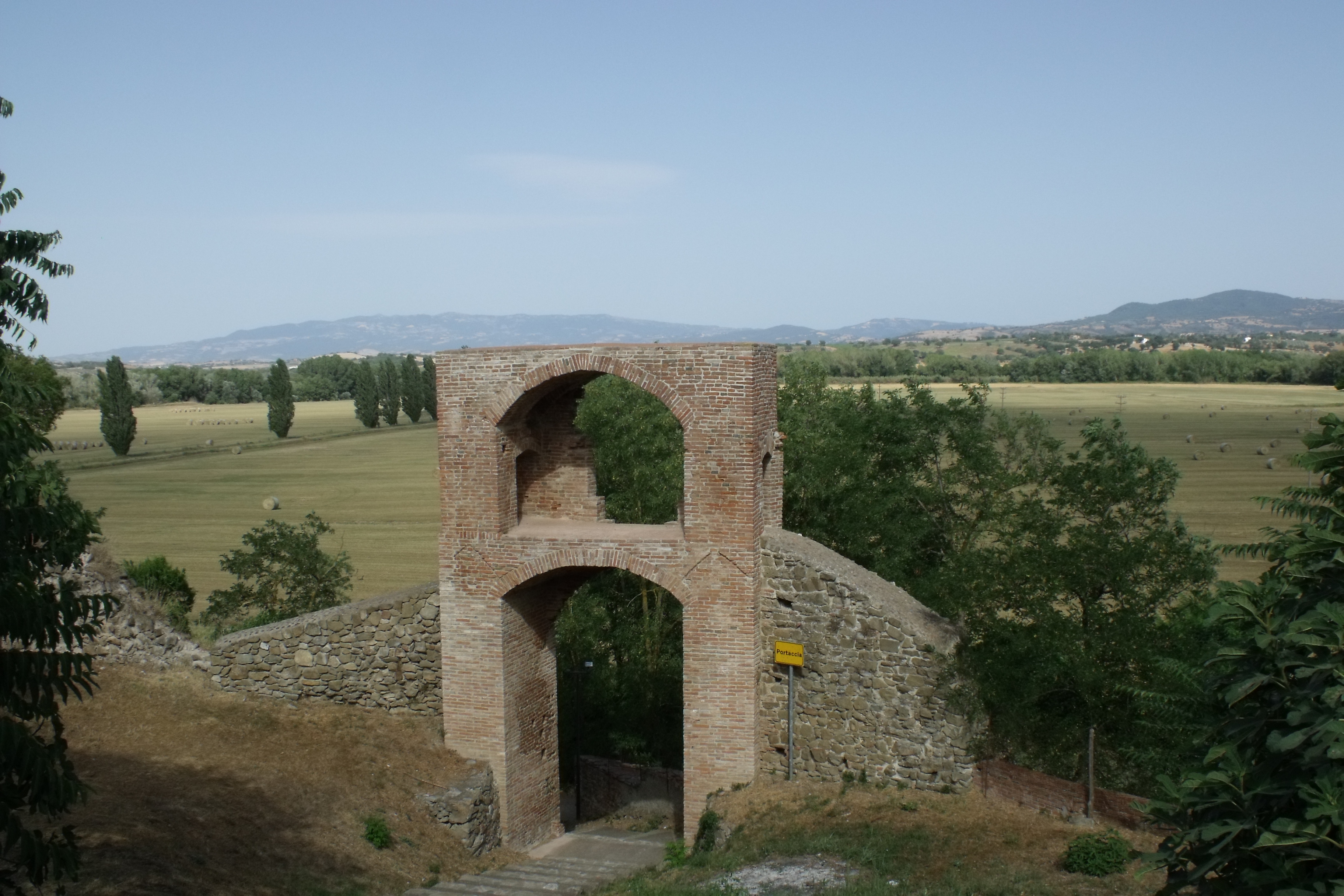 Defensive Gate Portaccia (also Porta Senese or Porta al Pero) in Istia d’Ombrone, Grosseto, Tuscany, Italy